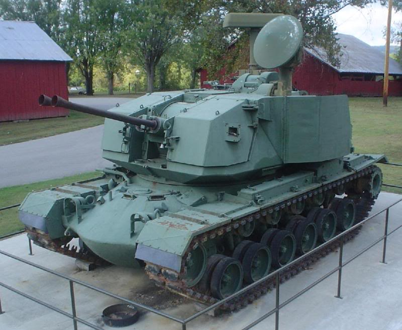 M247 Sgt York Division Air Defense Gun (DIVAD) A total failure. Based on rebuilt M48A5 tank chassis.